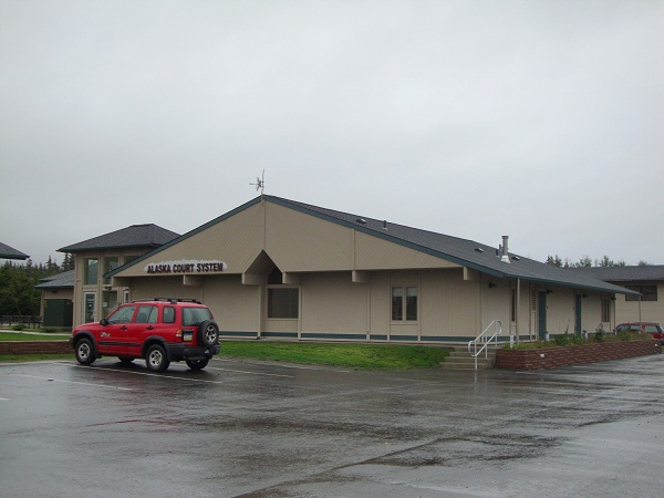 Courthouse in Homer, Alaska